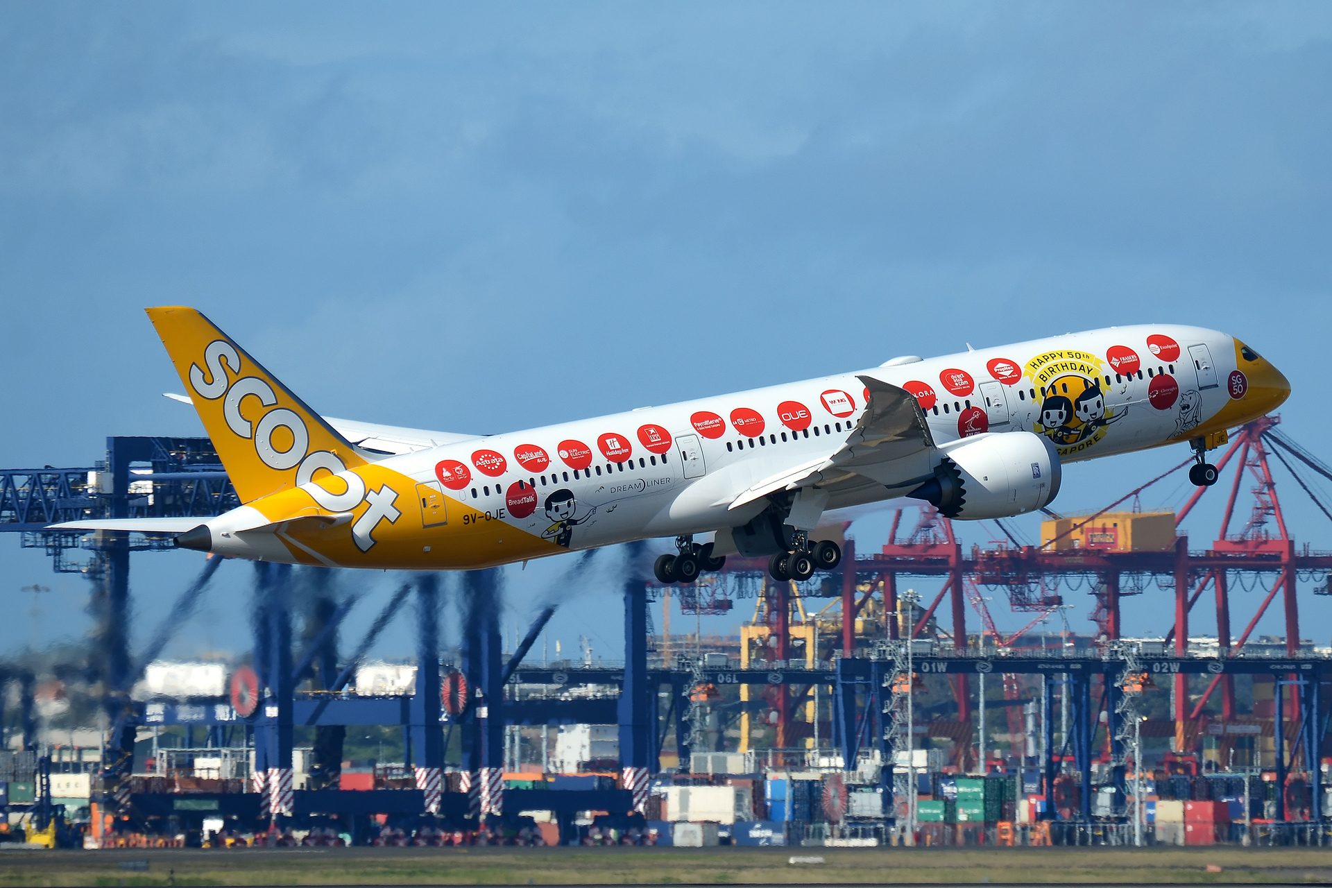 Scoot Boeing 787-9 (9V-OJE) in SG50 livery taking off at Sydney Airport